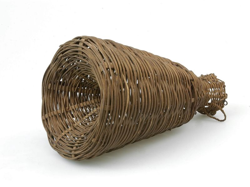 Trap.